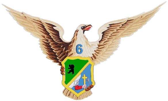 estonian military insignia